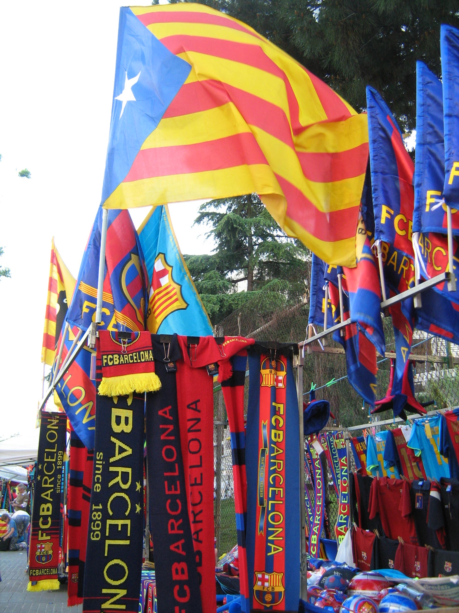 Flags and scarfs of Barcelona FC in front of the Camp Nou.